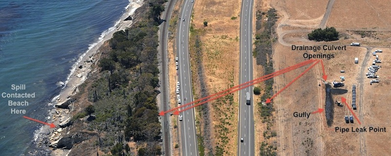 Aerial: Oil spill from Plains All American Pipeline near the Refugio Beach park and campground in Santa Barbara County, CA on May 19, 2015.